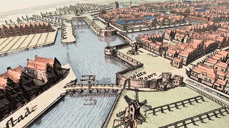 Detail of a map of Leiden (Netherlands) from 1649 with the Witte Poort.